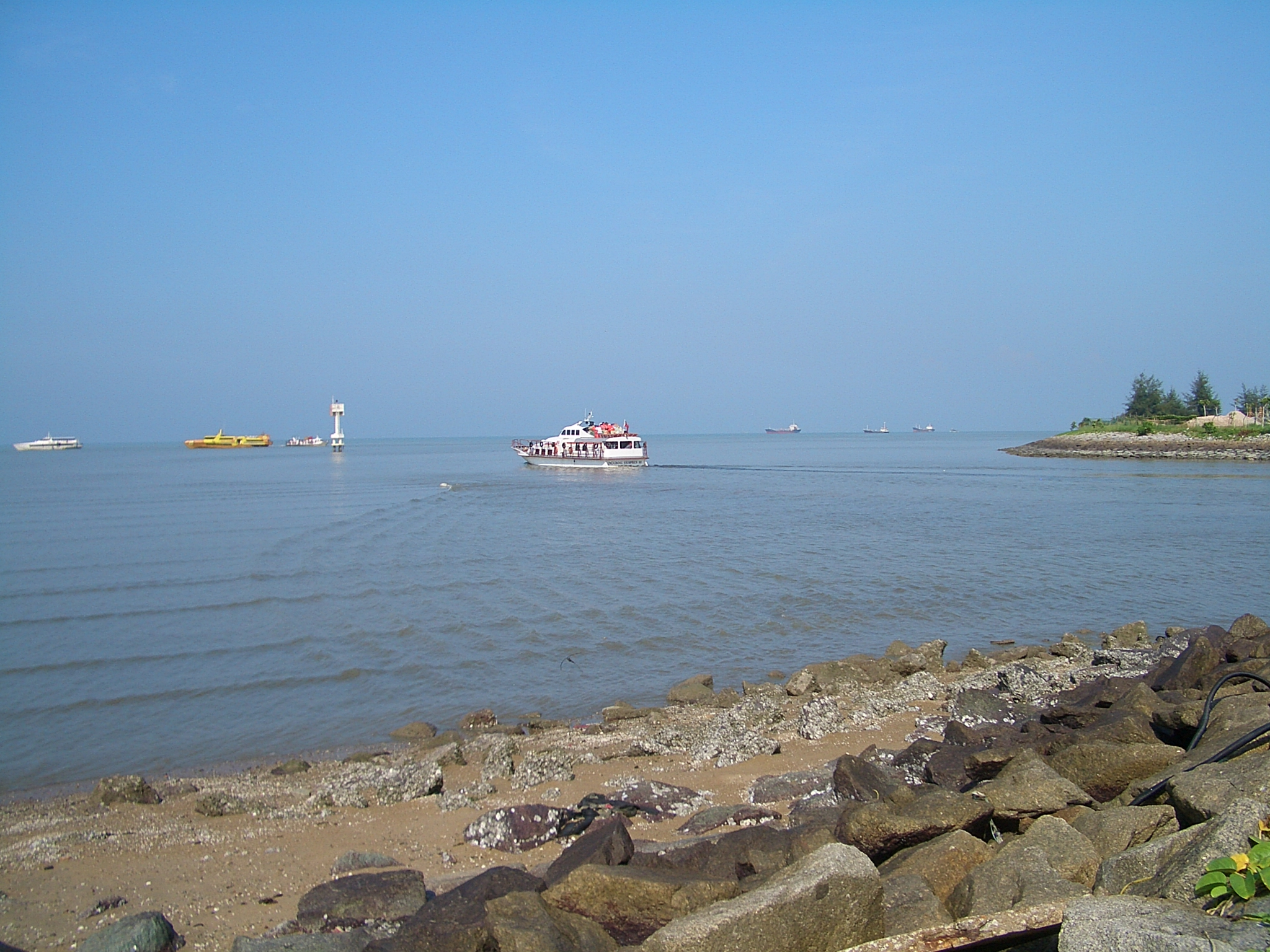 As the big yellow Malaysia-Indonesia ferry boat is anchored offshore, smaller shuttle boats take cargo and passengers to it. Other big boats are seen on the horizon, far in the Strait of Malacca